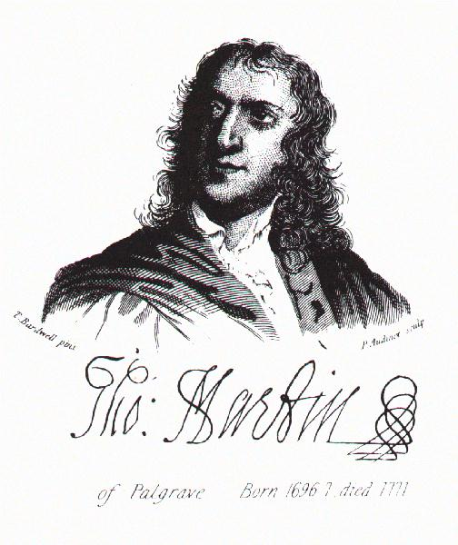 Thomas Martin of Palgrave